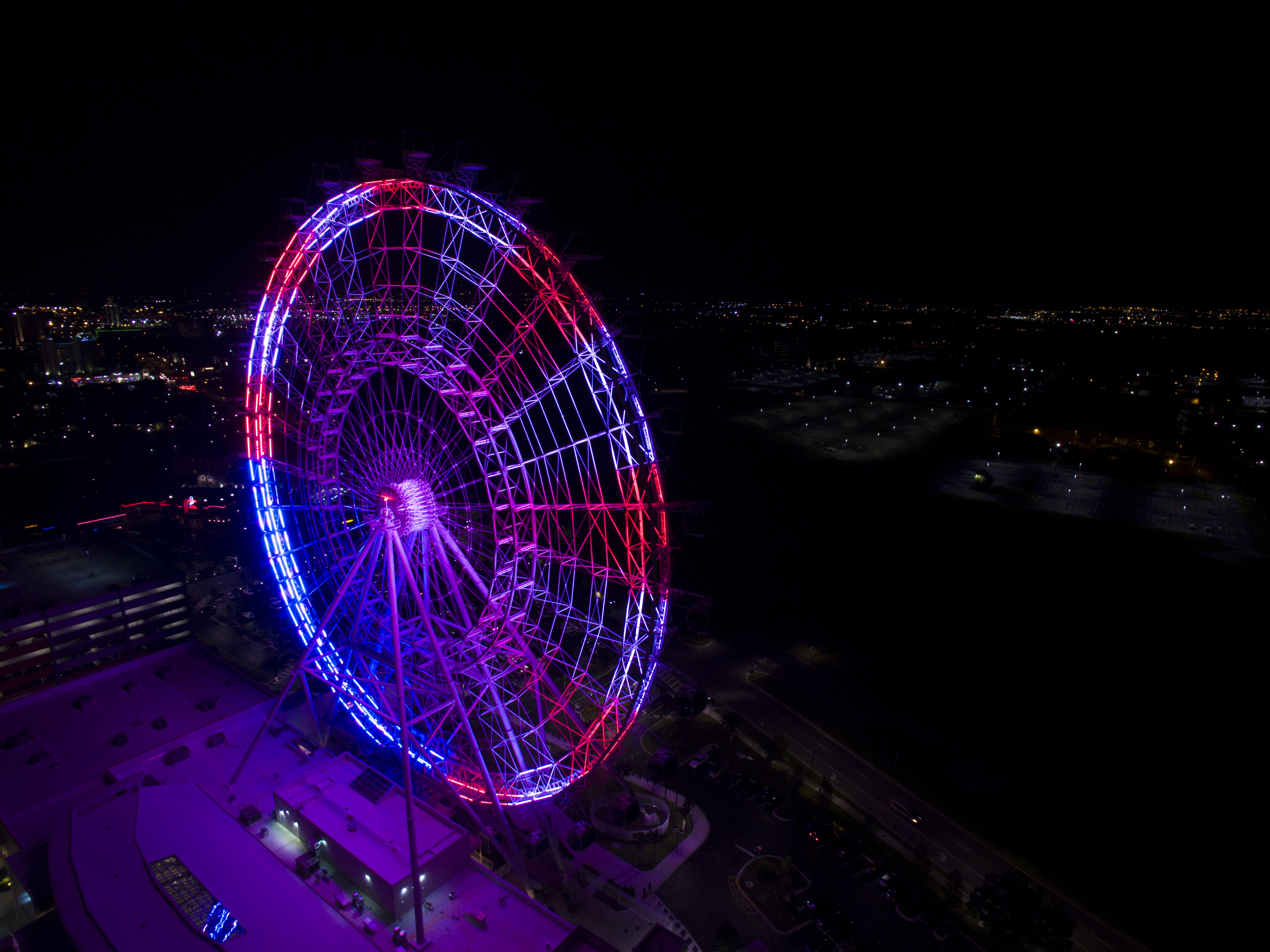 This aerial image was taken on September 11, 2015 when the Orlando Eye was displaying patriotic colors.